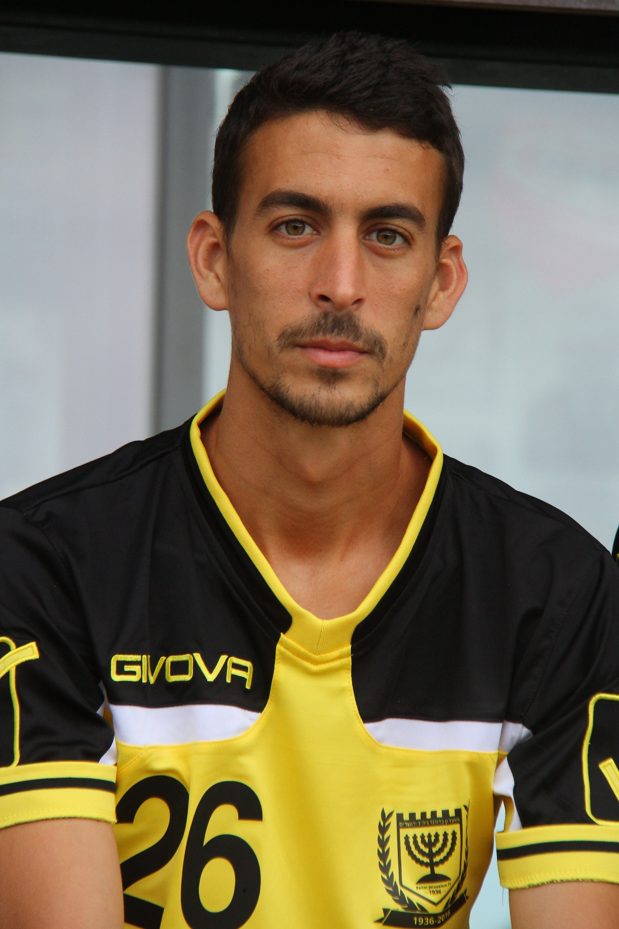 Friendly match between Beitar Jerusalem F.C. (yellow shirts) and MTK Budapest FC (blue shirts) at 2016-06-18 in Bad Erlach (Austria. – The photo shows Shlomi Avisidris, Beitar Jerusalem F.C.